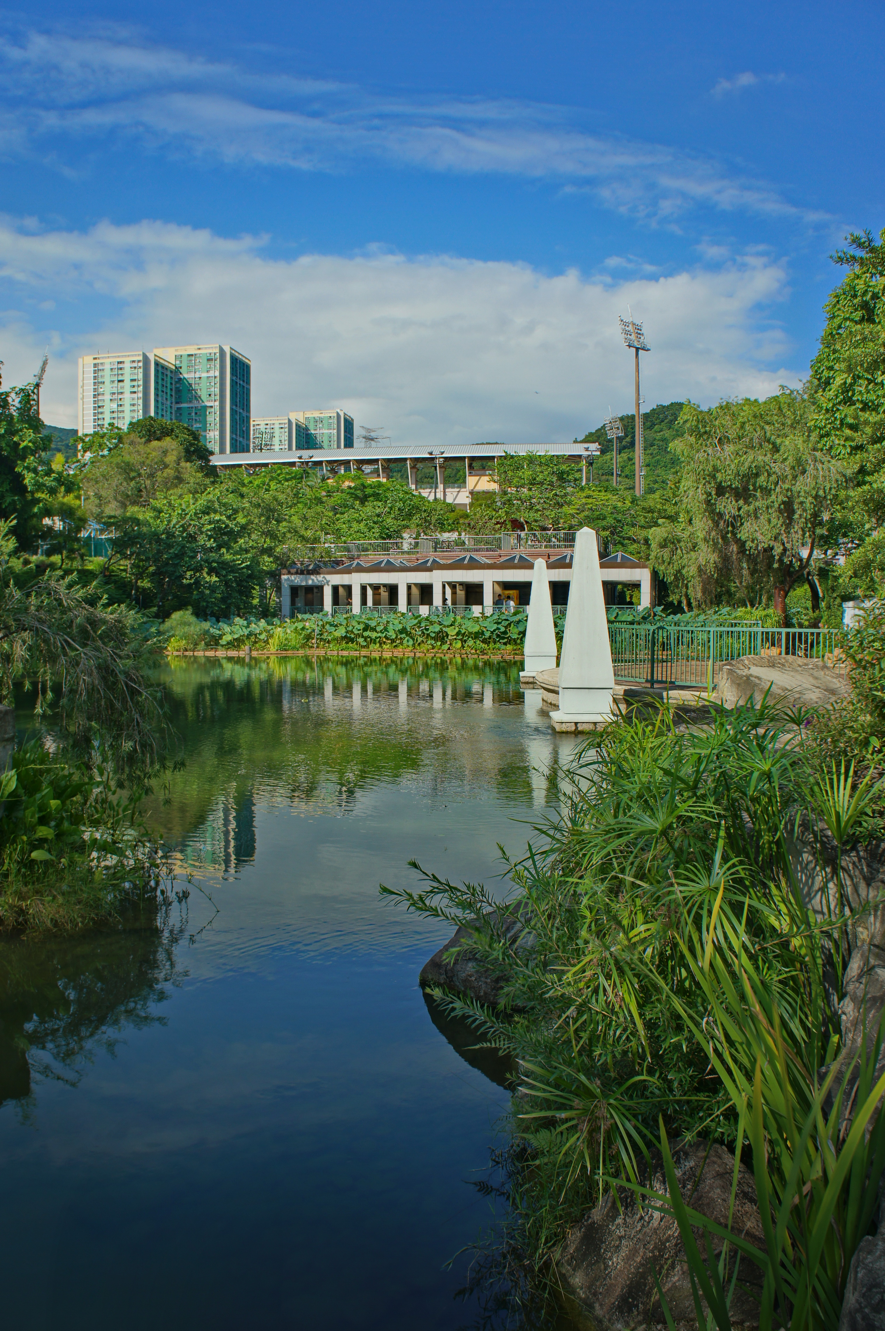 South Garden in the Shing Mun Valley Park, Hong Kong.